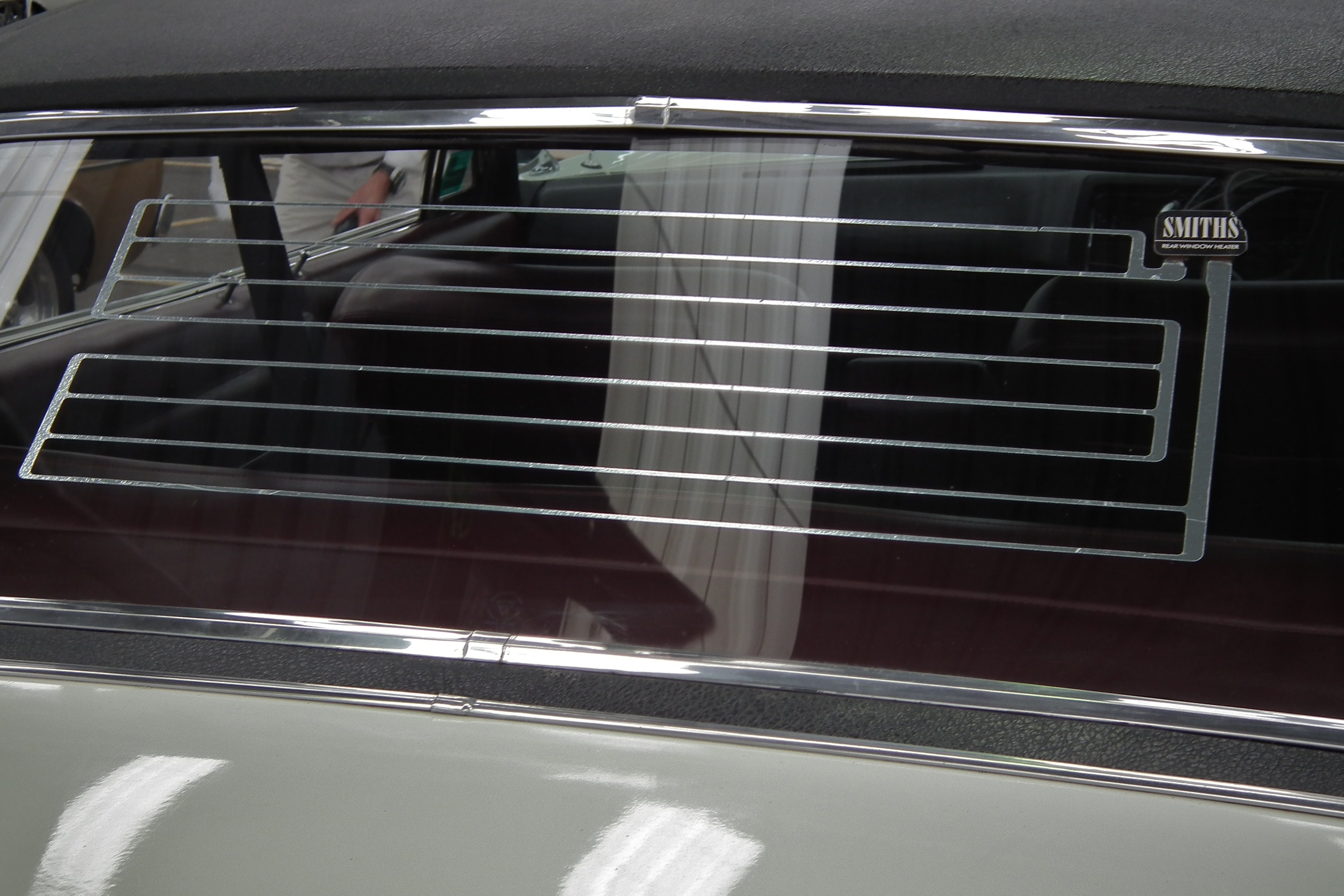 1969 Dodge DE Phoenix 400 hardtop sedan rear window defroster. Limited edition number 233 of 400 built. These adhesive window heaters were made by Smiths, who made a range of heaters, air conditioners, and auxilliary gauges for cars. Taken at the 2011 New South Wales All Chrysler Day, held at Fairfield Showground, Prairiewood, Sydney.